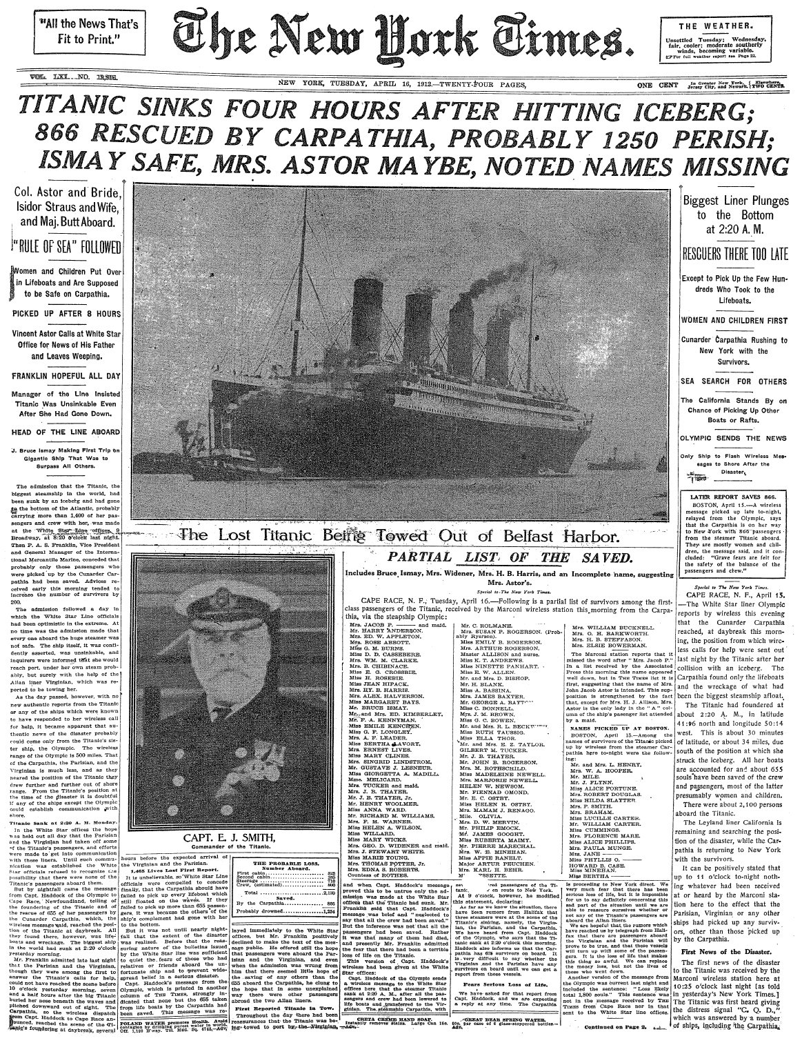 The New York Times front page for April 16, 1912 after the Titanic sinking.